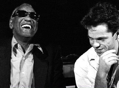 Steve Forward and Ray Charles at Studio Guillaume Tell Paris during the recording session of the single "Precious Thing" (1989)